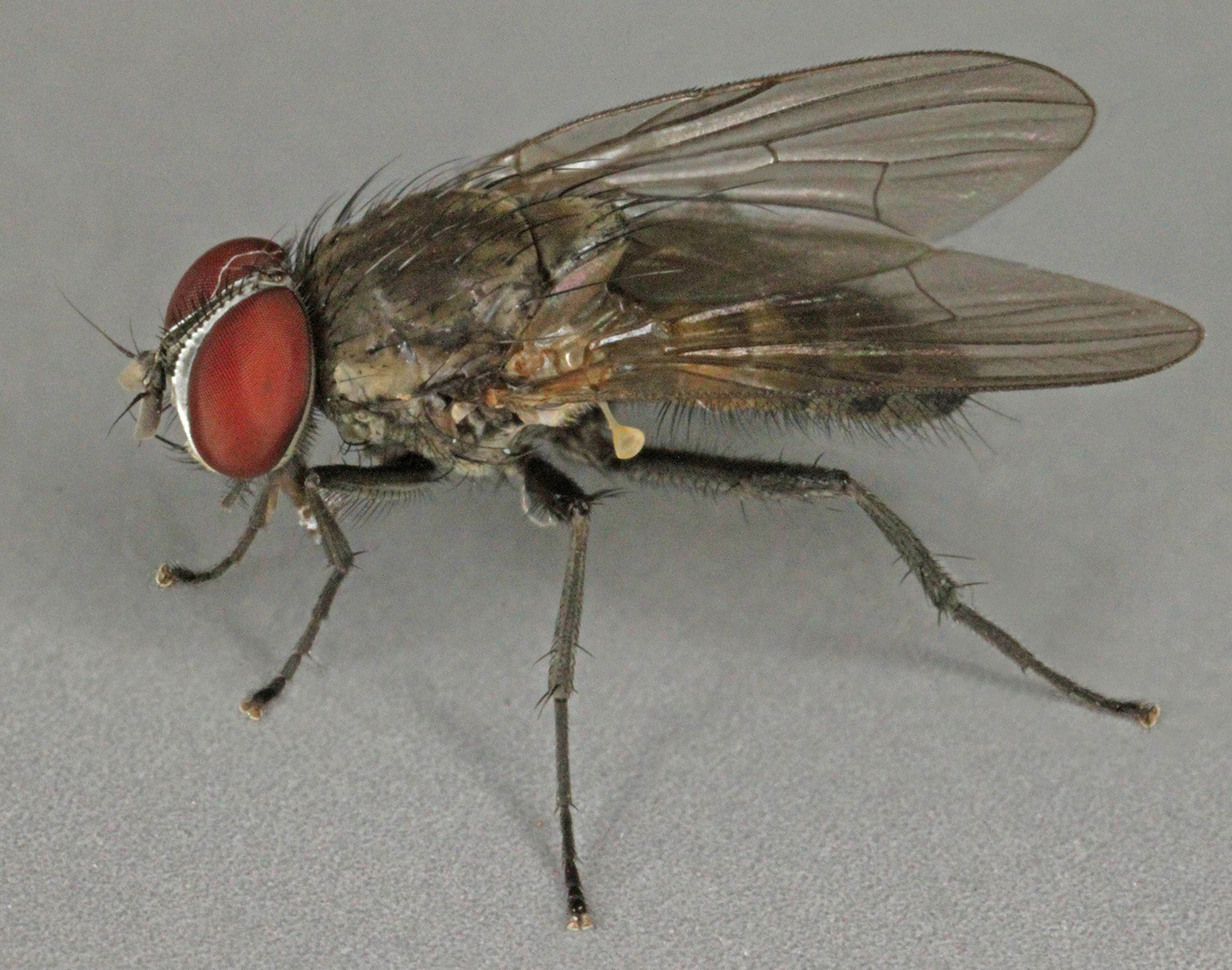 Fannia canicularis, Trawscoed, North Wales, Sept 2011